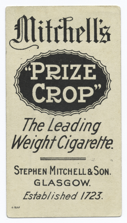 Rear of Mitchell's "Prize Crop" Cigarette card